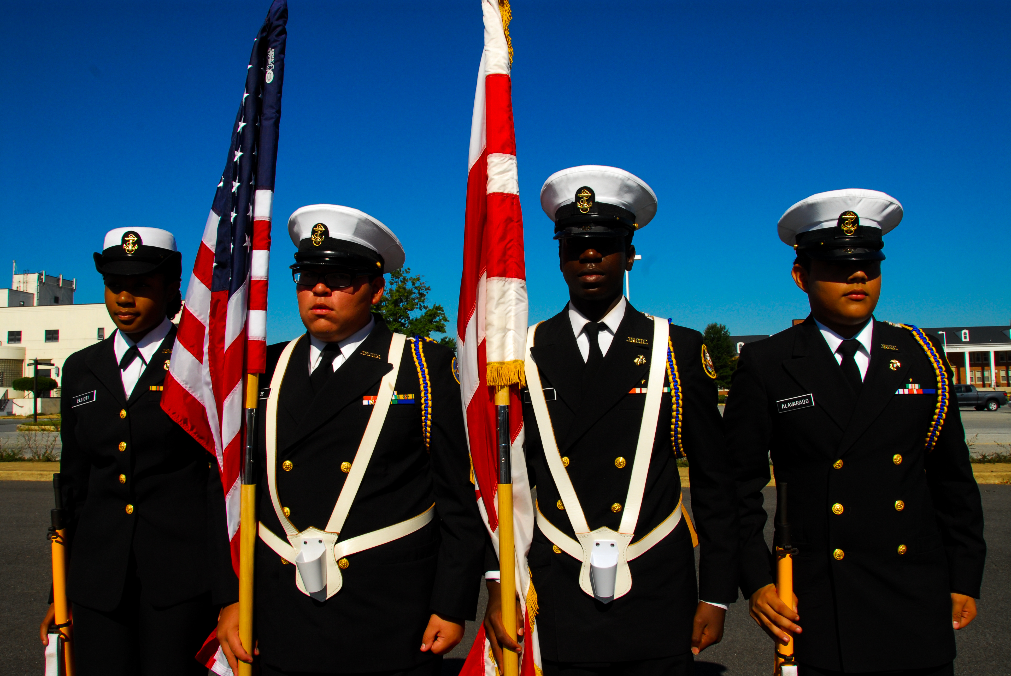 Members of the Bell Multicultural High School (D.C.) Naval Junior Reserve Officers Training Corps (NJROTC) color guard unit prepare to take the drill deck at the 15th annual NJROTC Drill Competition on Joint Base Anacostia-Bolling (JBAB). NJROTC color guard units from the District of Columbia, Maryland and Virginia fiercely competed Sept. 27 for an opportunity to present the nation’s colors at the Navy Ball in Washington. The Ball is attended by the Chief of Naval Operations and other military and non-military leaders. Members of the Navy’s elite Ceremonial Guard judge the competition. (U.S. Navy photo by Joseph P. Cirone/Released)